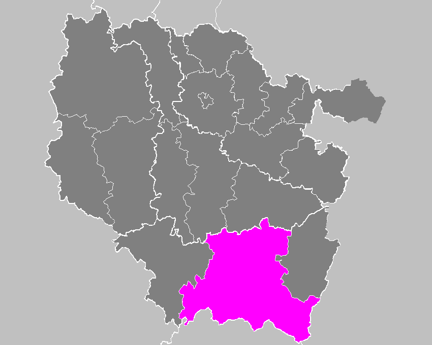 Maps of arrondissements and cantons of France: Arrondissement d Épinal.PNG